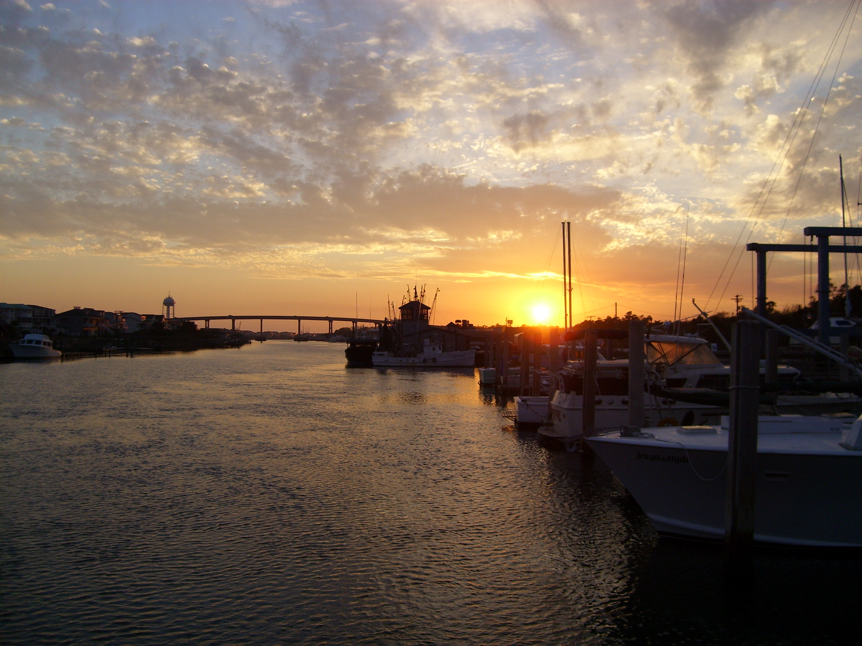 Holden Beach, NC (taken at Betty's Waterfront Restaurant)